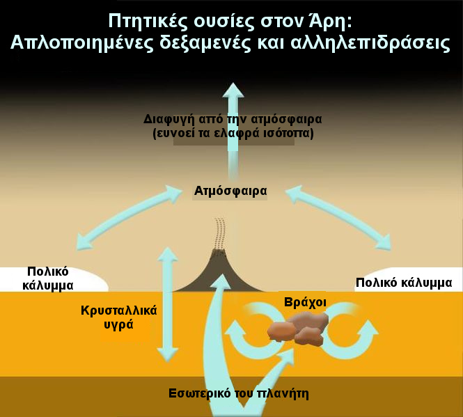 Translation of Αρχείο:PIA16463-MarsVolatiles-20121102.jpg into Greek